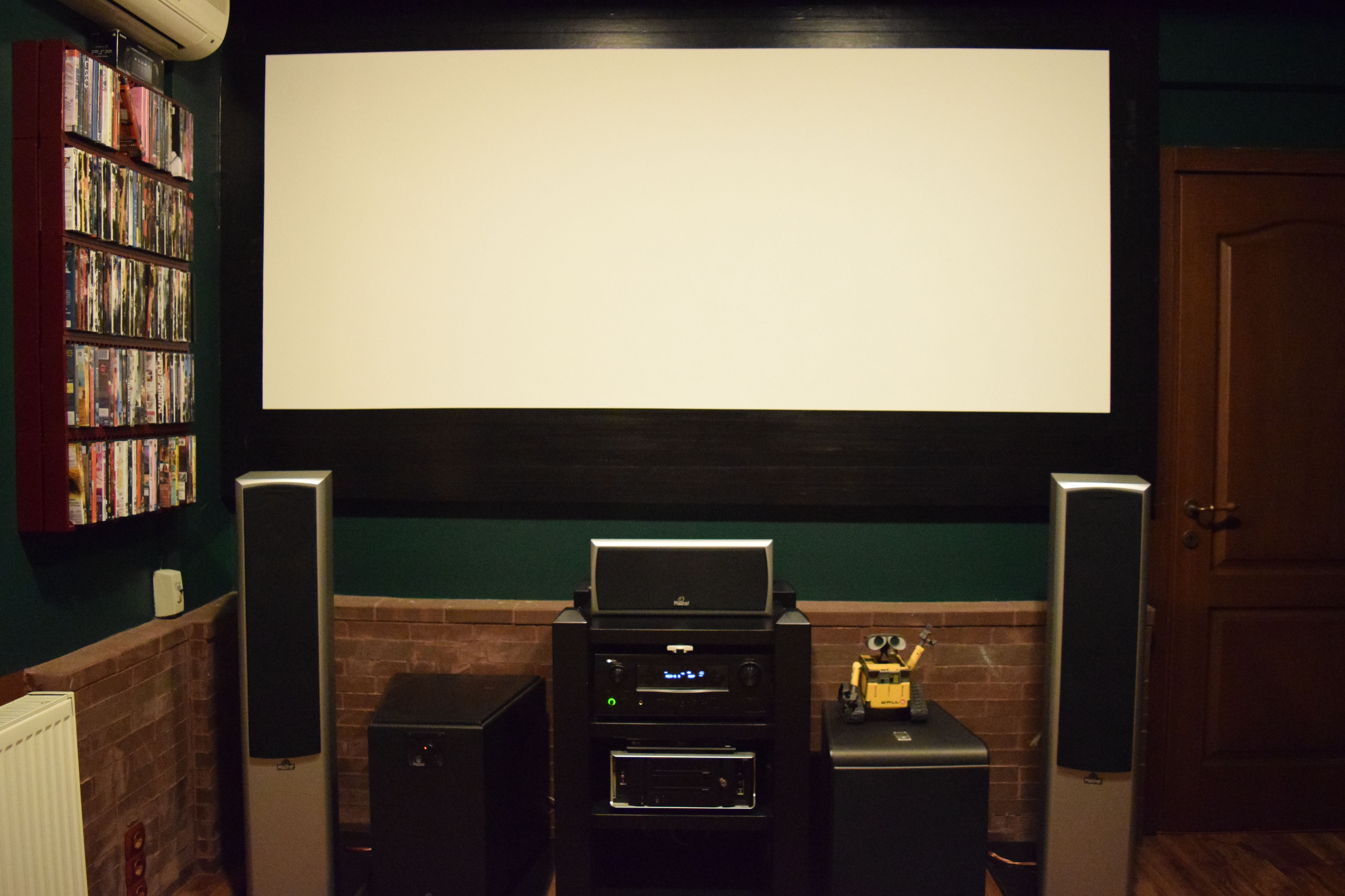 Home theater Electronics and Screen